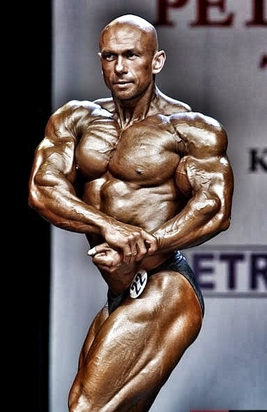 Andrzej Maszewski